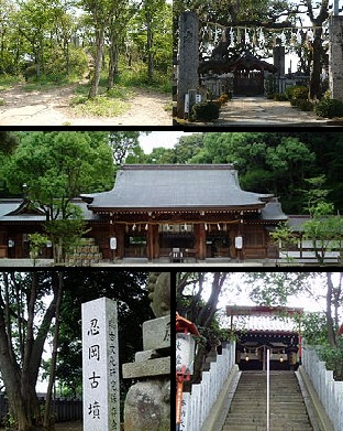 Shijonawate montage